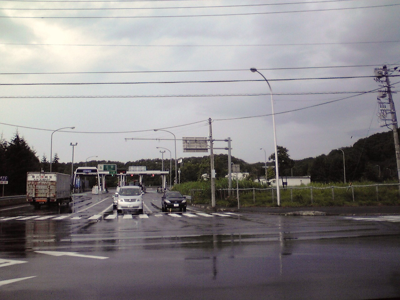 This is an interchange of Hokkaido EXPWY.